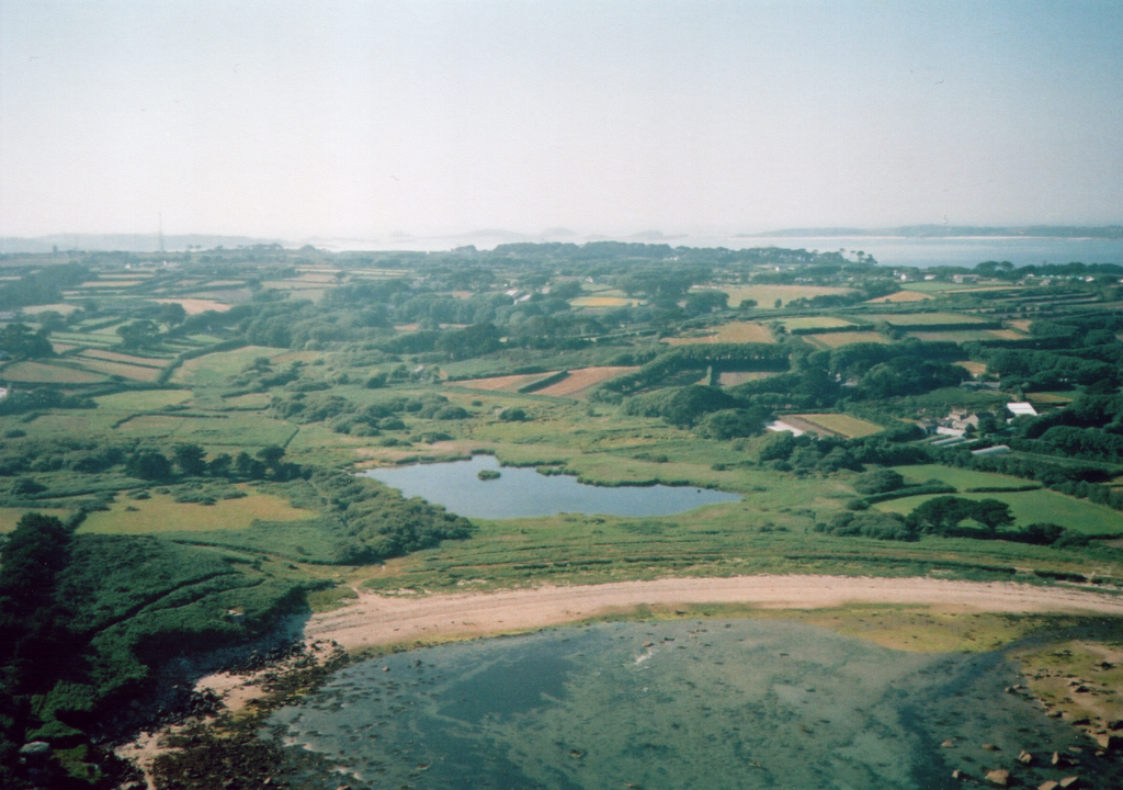 St Mary's, Isles of Scilly, Cornwall. As seen from the helicopter.